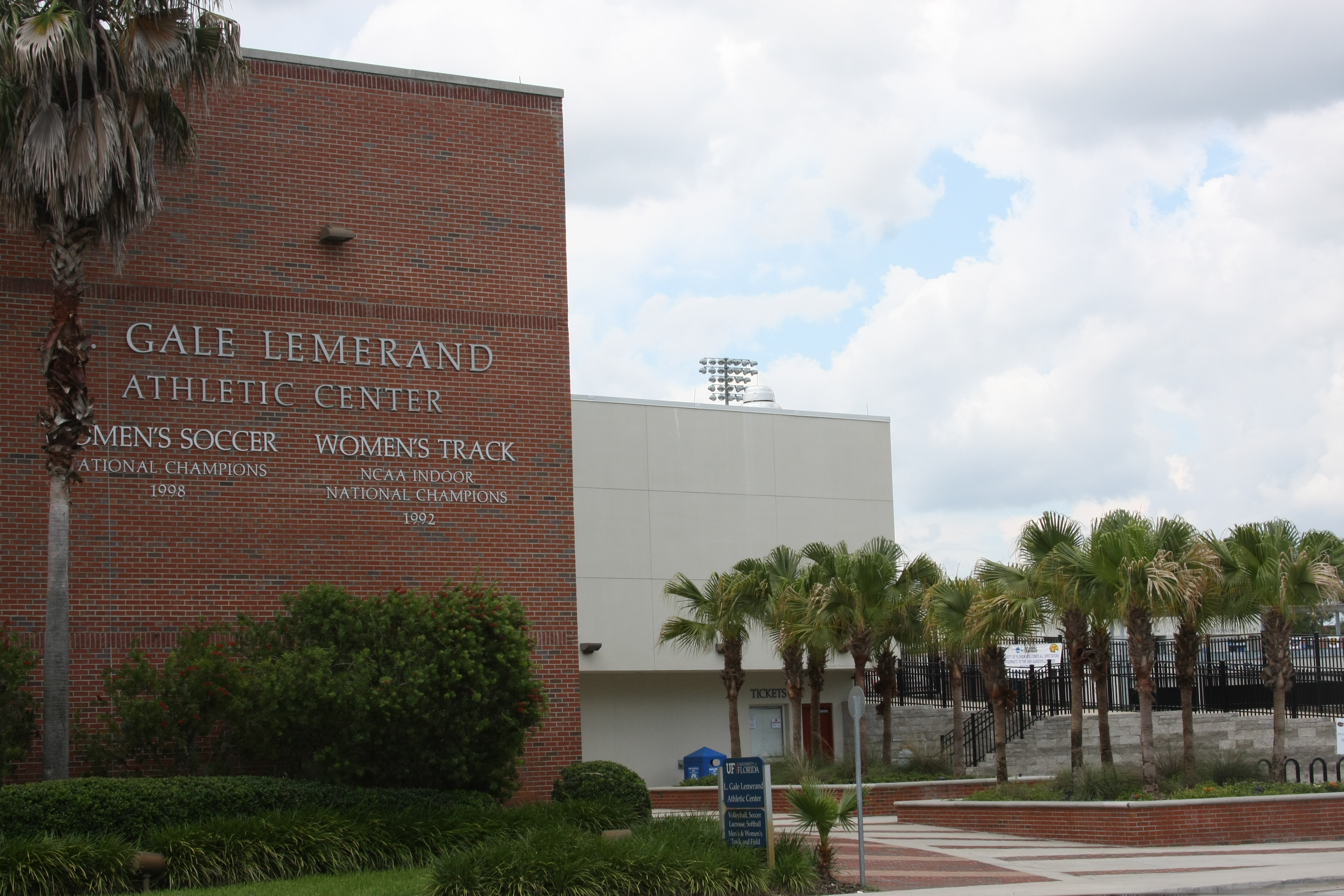 L. Gale Lemerand Center at the University of Florida